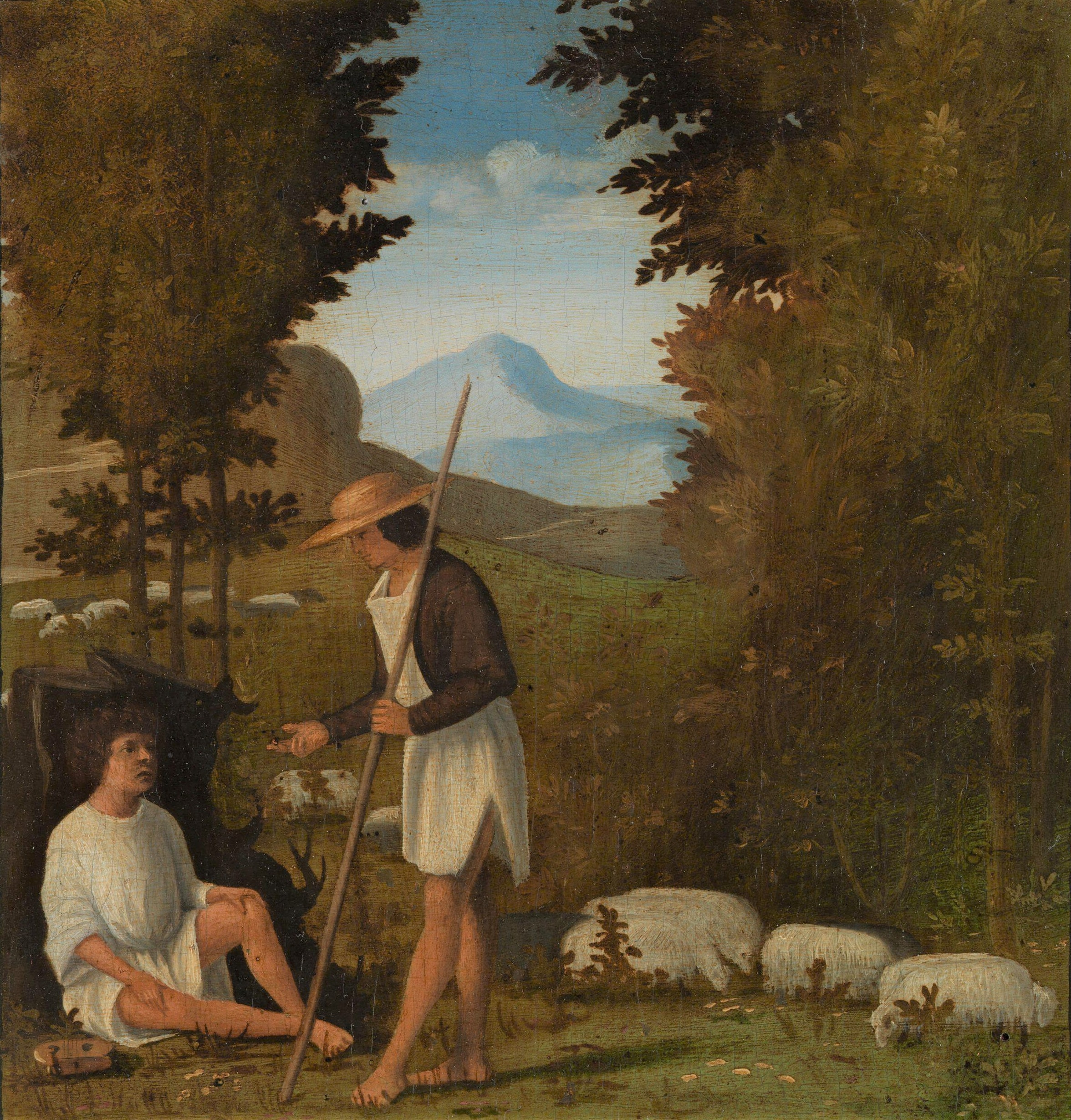 One of four paintings in the series " Scenes from Tebaldeo's Eclogues" 800x600